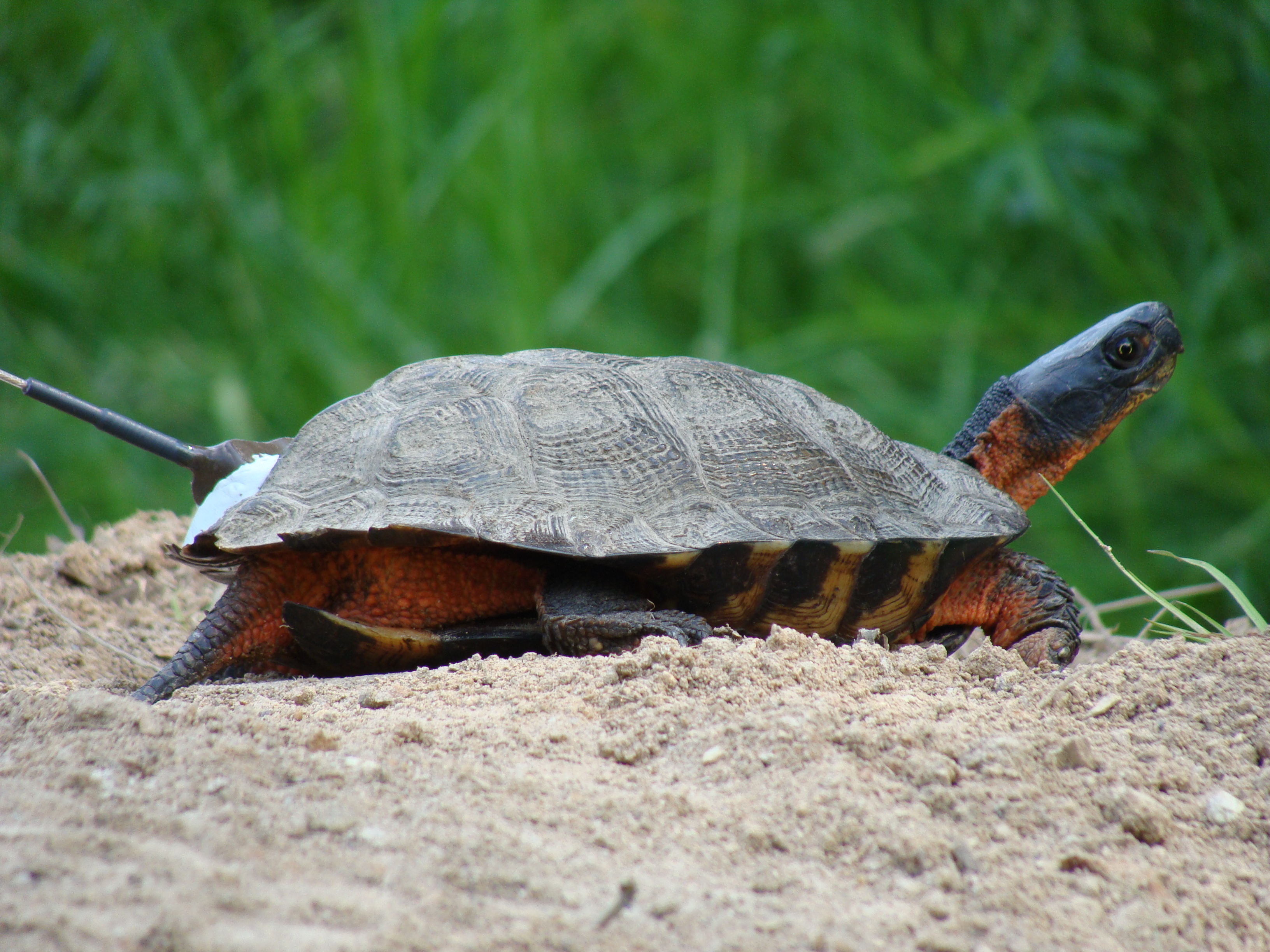 Female Wood Turtle with Radio Transmitter at Great Swamp National Wildlife Refuge Credit: Colin Osborn/USFWS